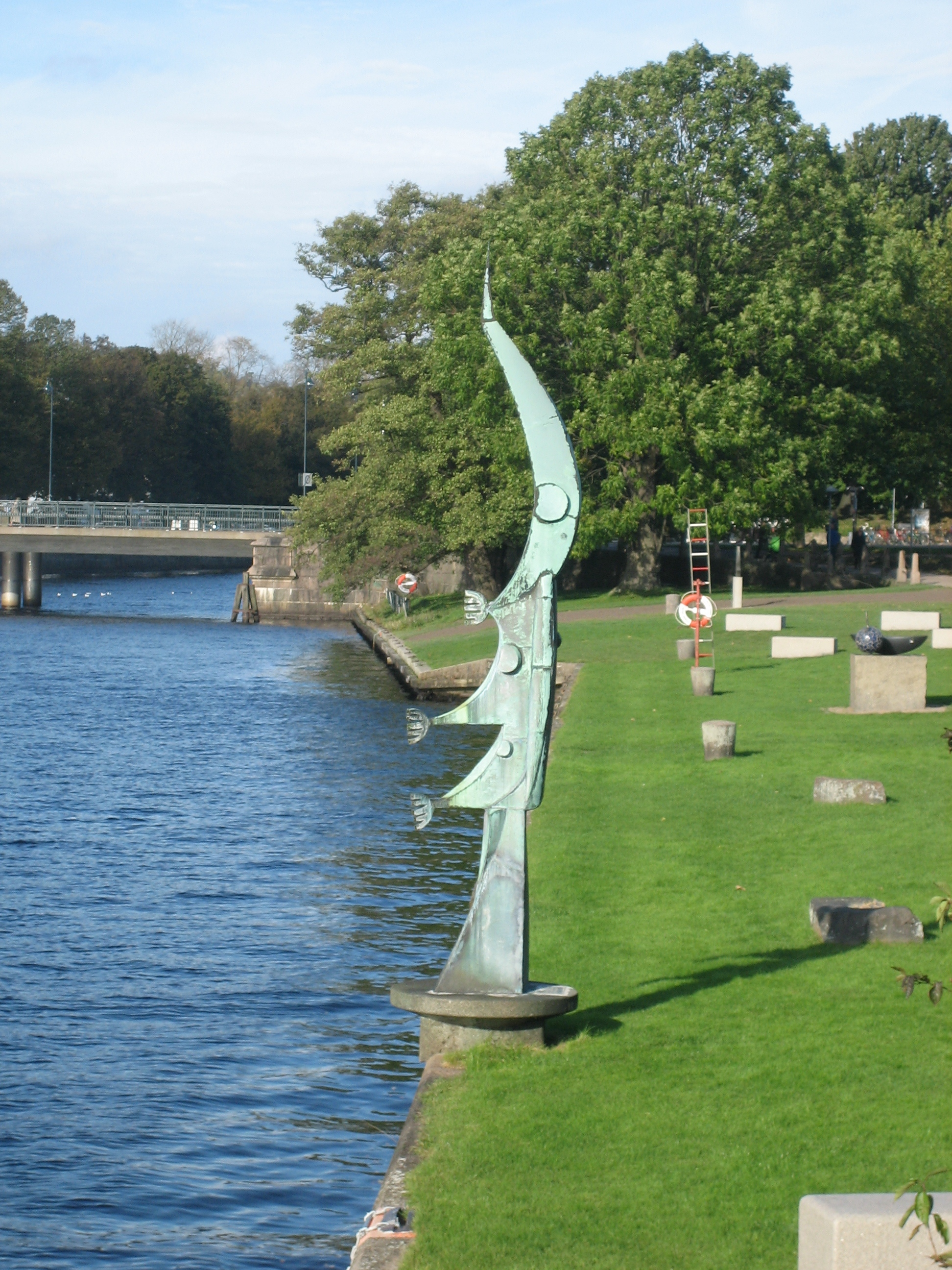 Raise of the Salmon by Valter Bengtson, Halmstad, Sweden.